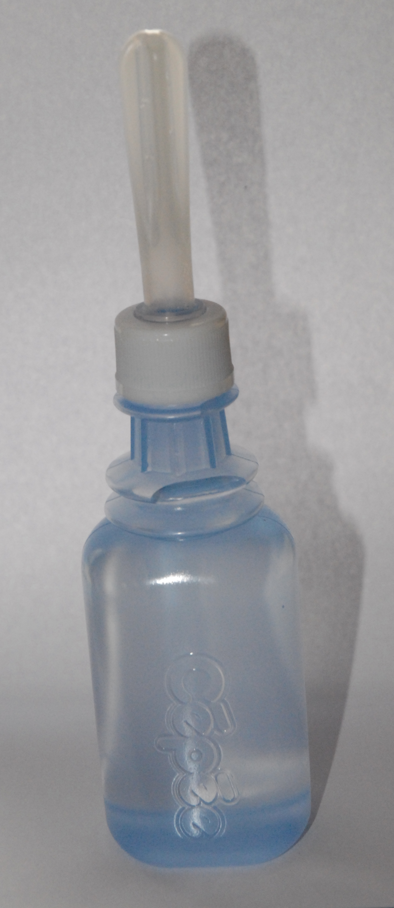 Douche available to use.